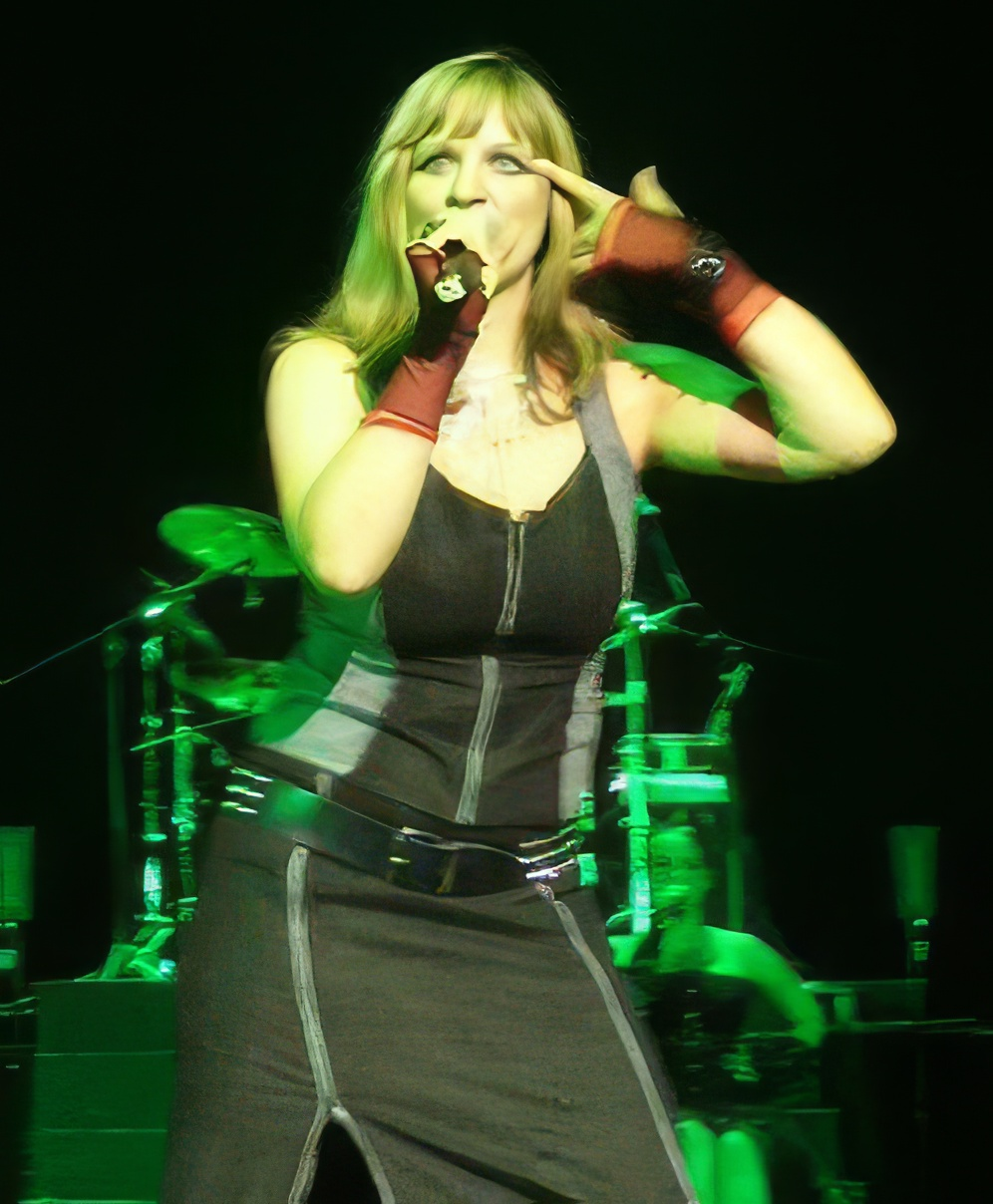 This is a shot from Lori Lewis in the Therion show in Manizales Colombia in 2007 from their Gothic Kabbalah Tour Lori Lewis